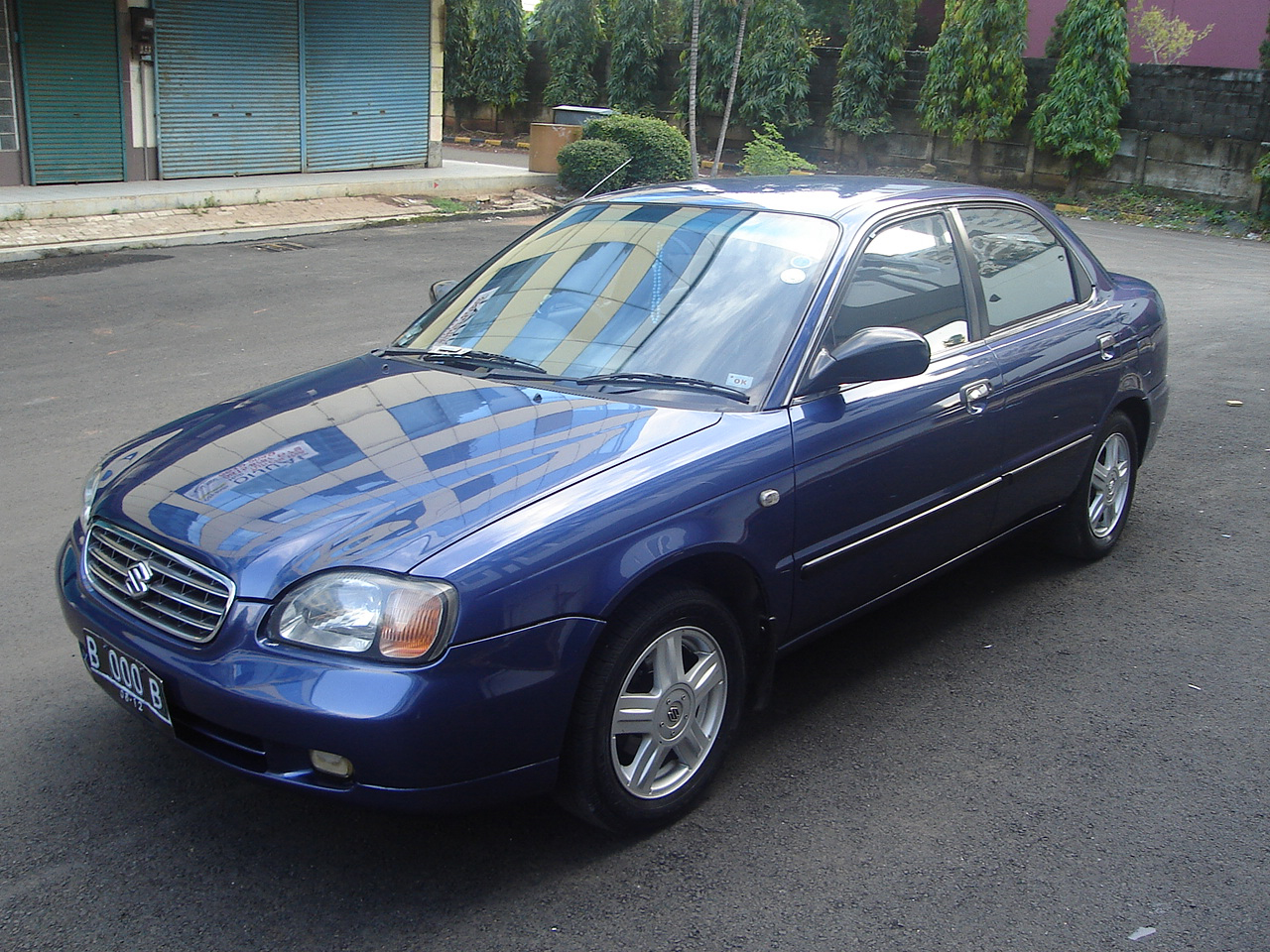 2002 Suzuki Baleno Sedan, photo taken in Jakarta - Indonesia.